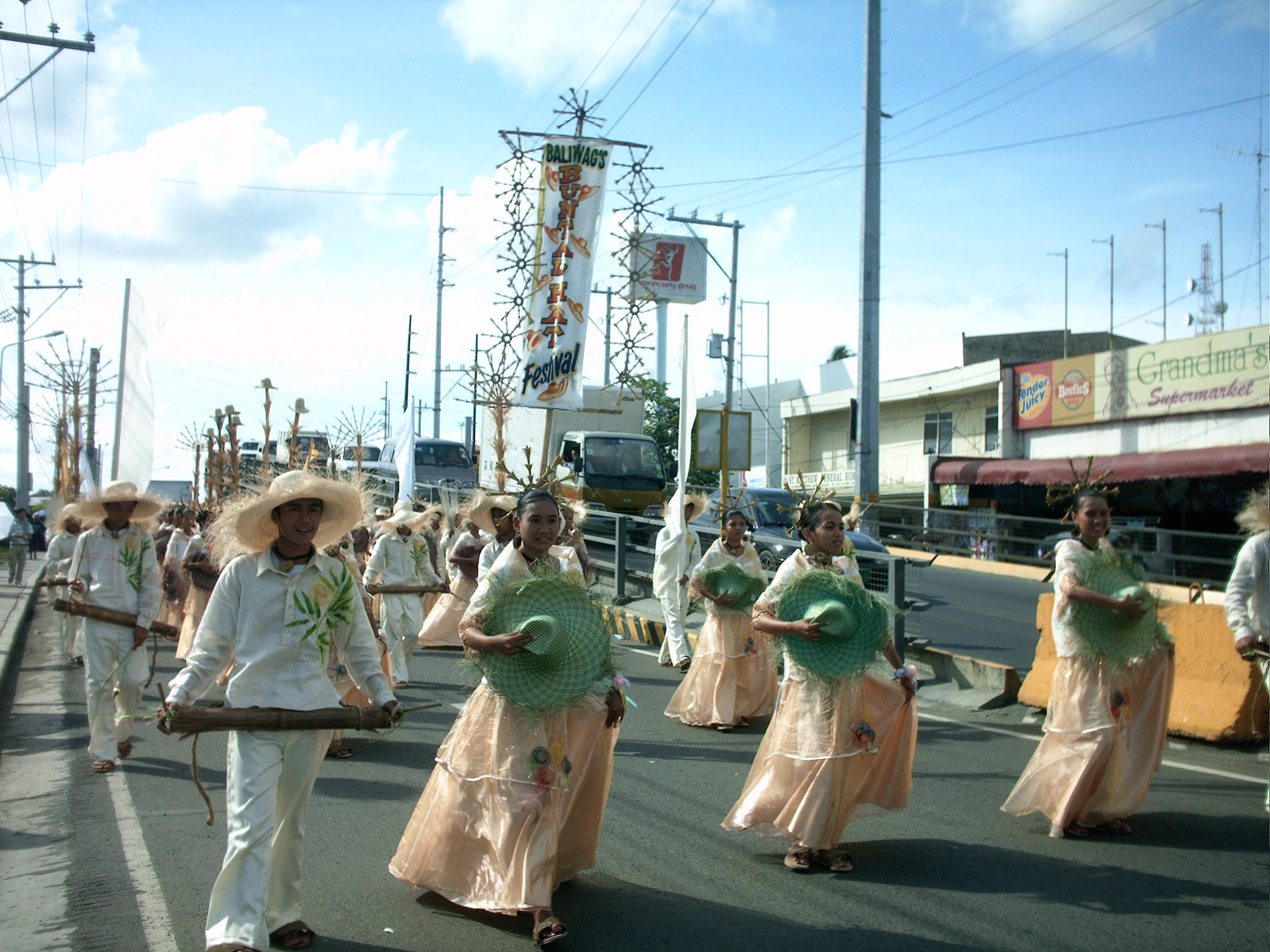 Singkaban Fiesta 2008. Festival of Arts and Culture of Bulacan. Street Dancing City of Malolos, Bulacan Tagalog: Singkaban Fiesta 2008. Sining at Kalinangan ng Bulakan. Indakan sa Kalye. Lungsod ng Malolos, Bulakan